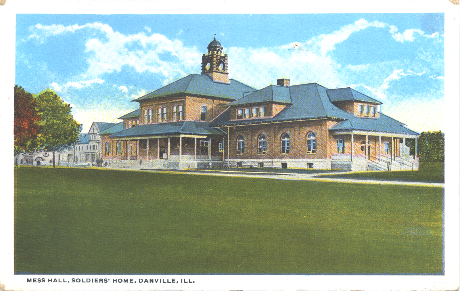 This is a postcard showing the mess hall at the Soldiers' Home in Danville, Illinois, USA circa 1910. This building is now the Clock Tower Center at Danville Area Community College.